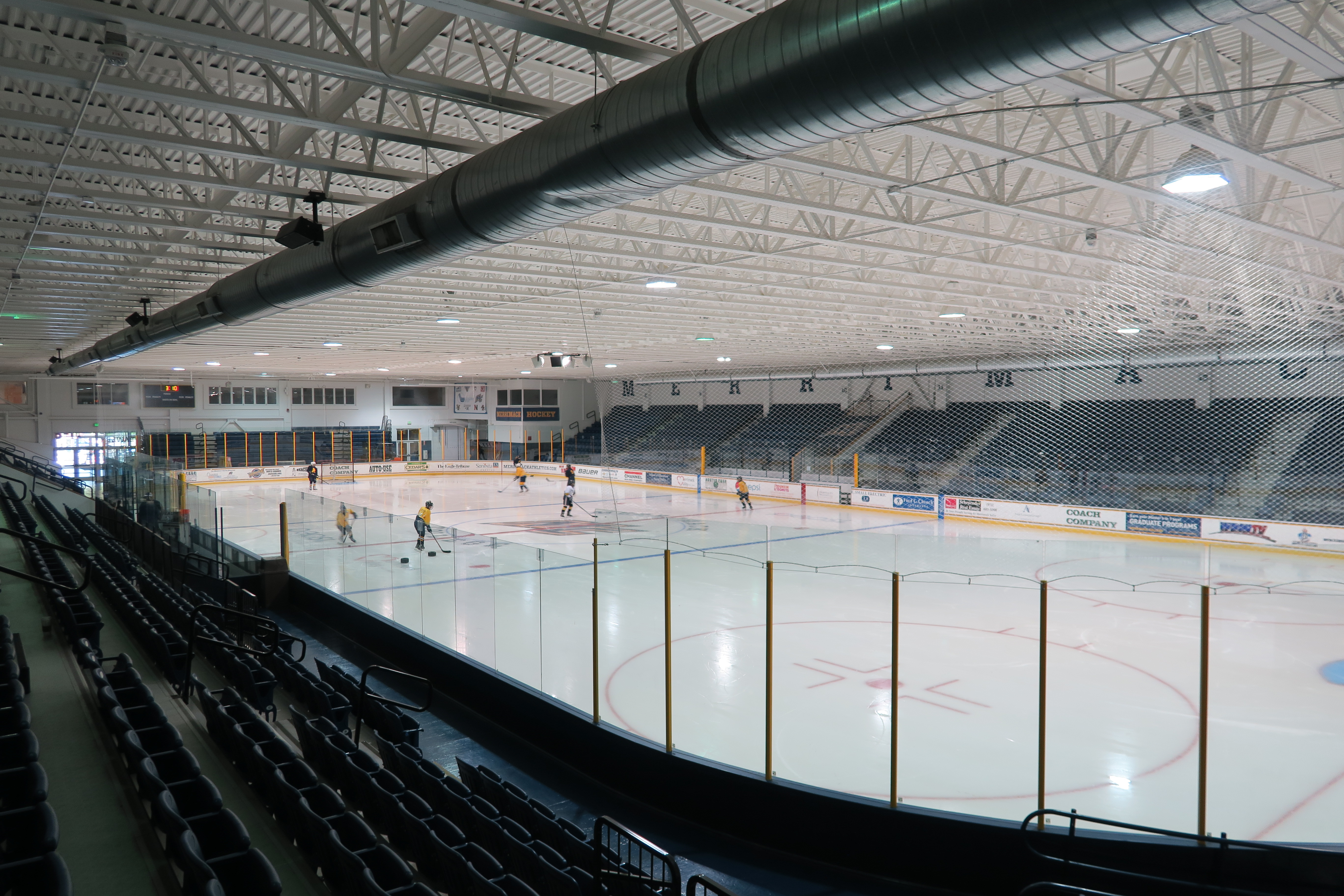 Lawler Arena, North Andover Massachusetts